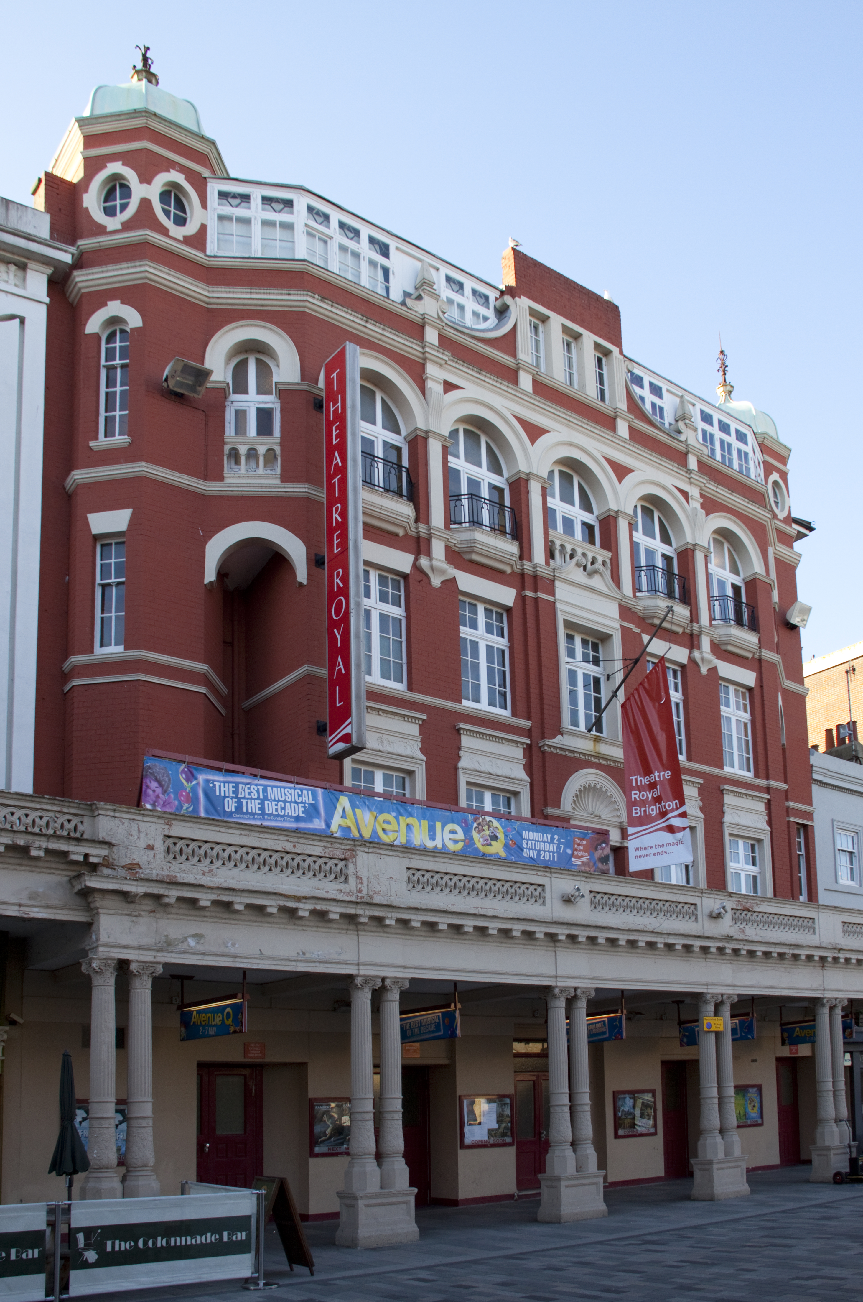 Theatre Royal Brighton 2